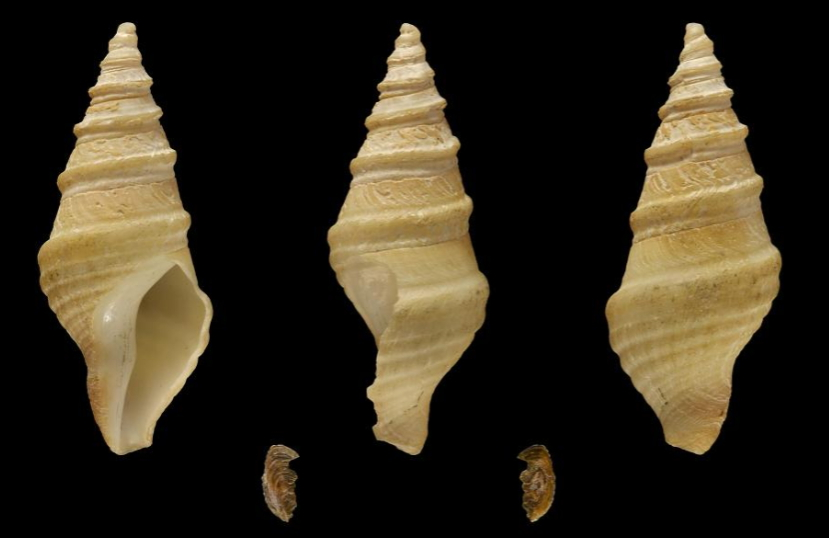 Suavodrillia kennicotti (Dall, 1871); family Borsoniidae; holotype of Drillia kennicotti at the Smithsonian Institution